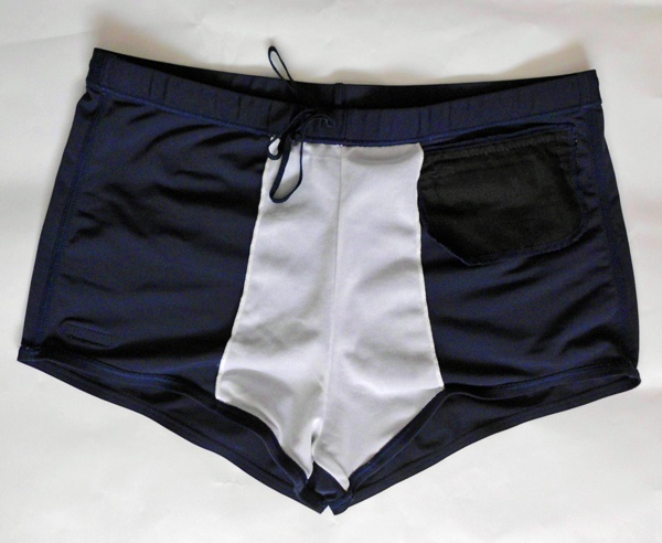 Mens swim shorts turned inside out showing (for modesty only) gusset.